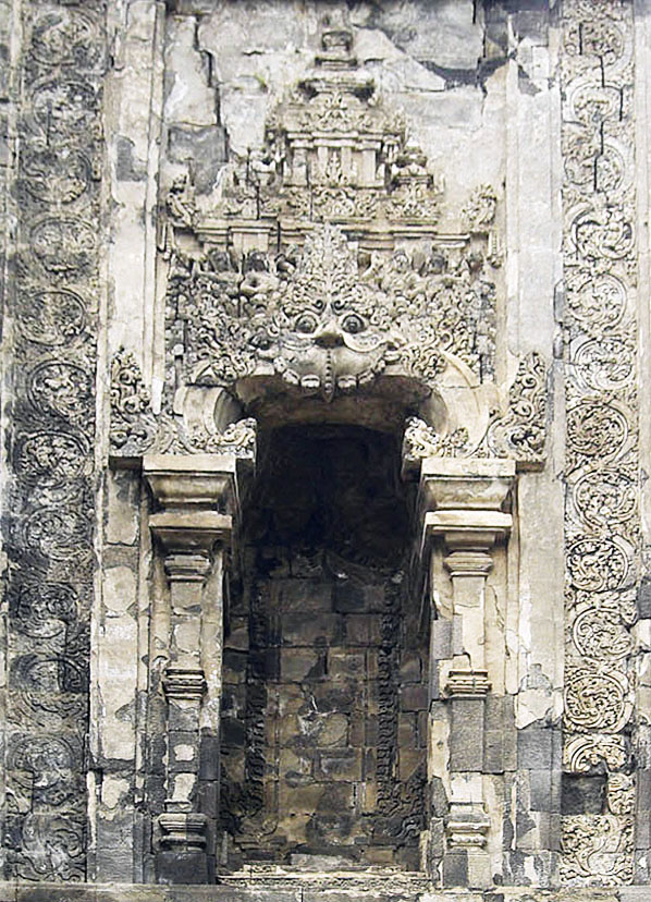 The niches around Kalasan buddhist temple, Yogyakarta, adorned with carvings of Kala giant and scene of deities: devatas, apsaras, and gandharvas in svargaloka (Hindu-Buddhist heaven).